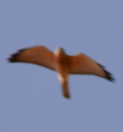 Levant Sparrowhawk, Accipiter brevipes male. Eilat, Israel